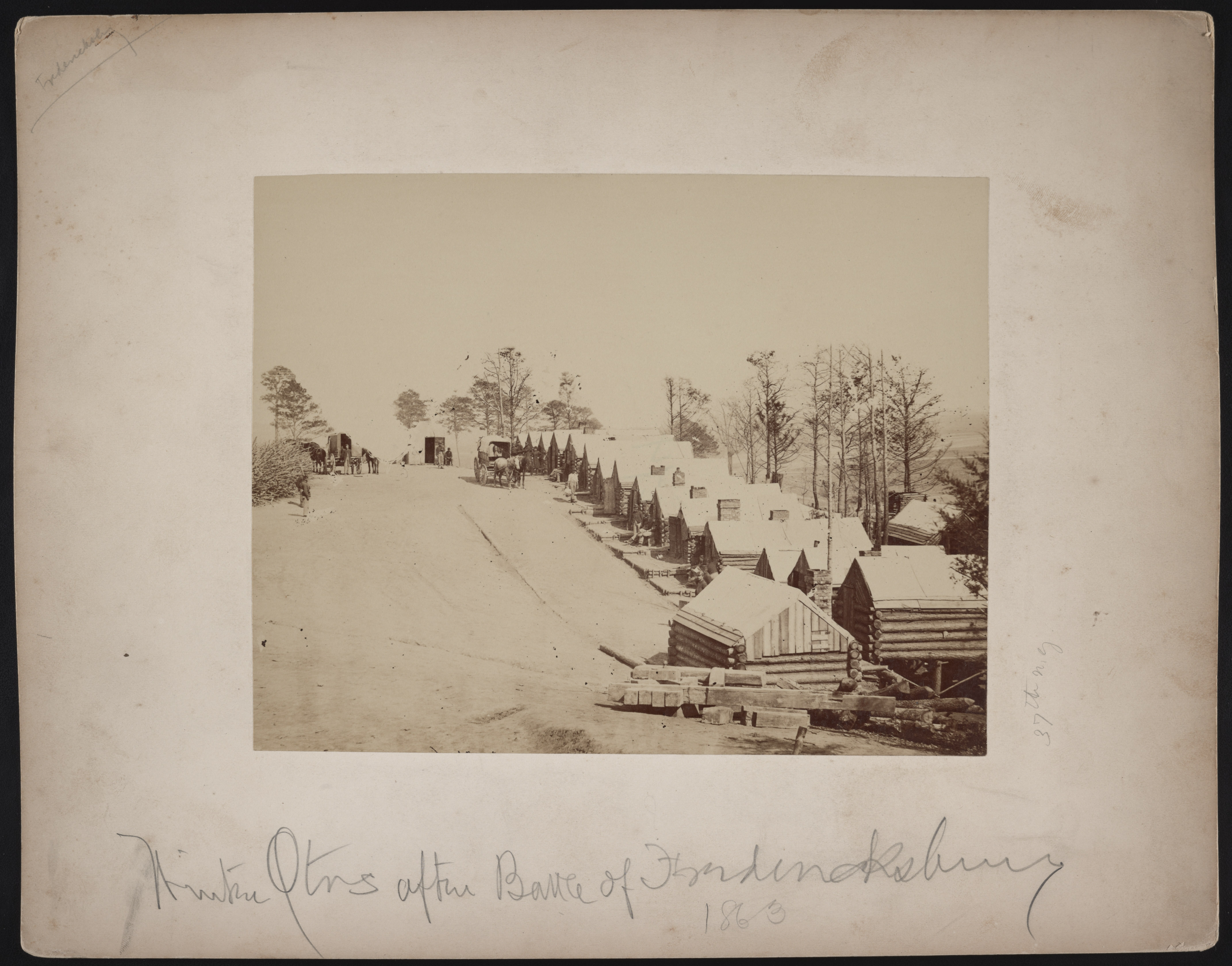 Title: Winter quarters of 37th New York Infantry Regiment after the Battle of Fredericksburg Abstract/medium: 1 photograph : albumen print on card mount ; sheet 17 x 22 cm, mount 28 x 36 cm.